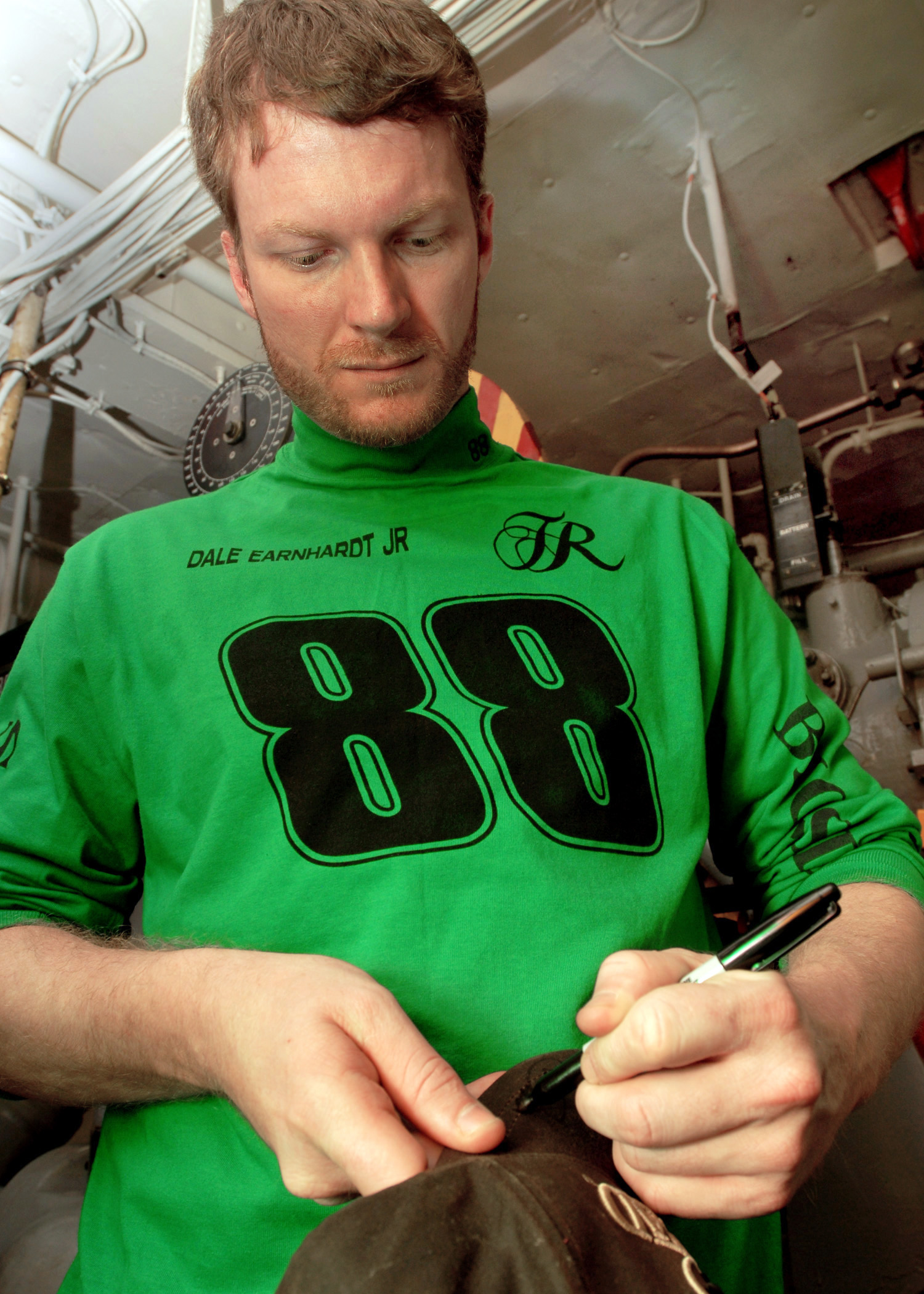 080501-N-2456S-001 ATLANTIC OCEAN (May 1, 2008) Dale Earnhardt Jr. signs a command ball cap for a Sailor during his visit to the aircraft carrier USS Theodore Roosevelt (CVN 71). Earnhardt visited Theodore Roosevelt to thank Sailors for their service. The Nimitz-class aircraft carrier and embarked airwing are conducting a Composite Training Unit Exercise.